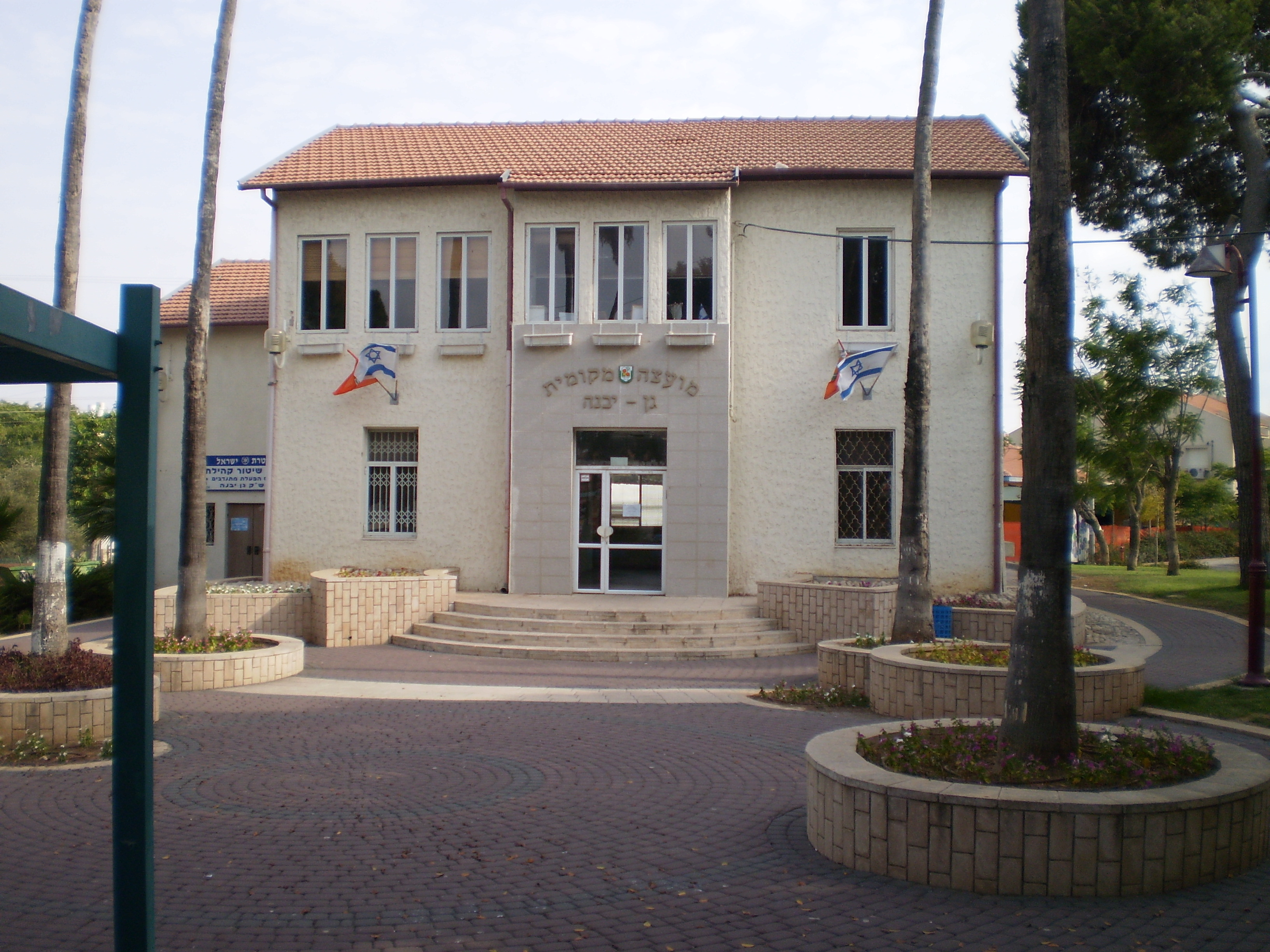 Gan Yave - Local municipality hall